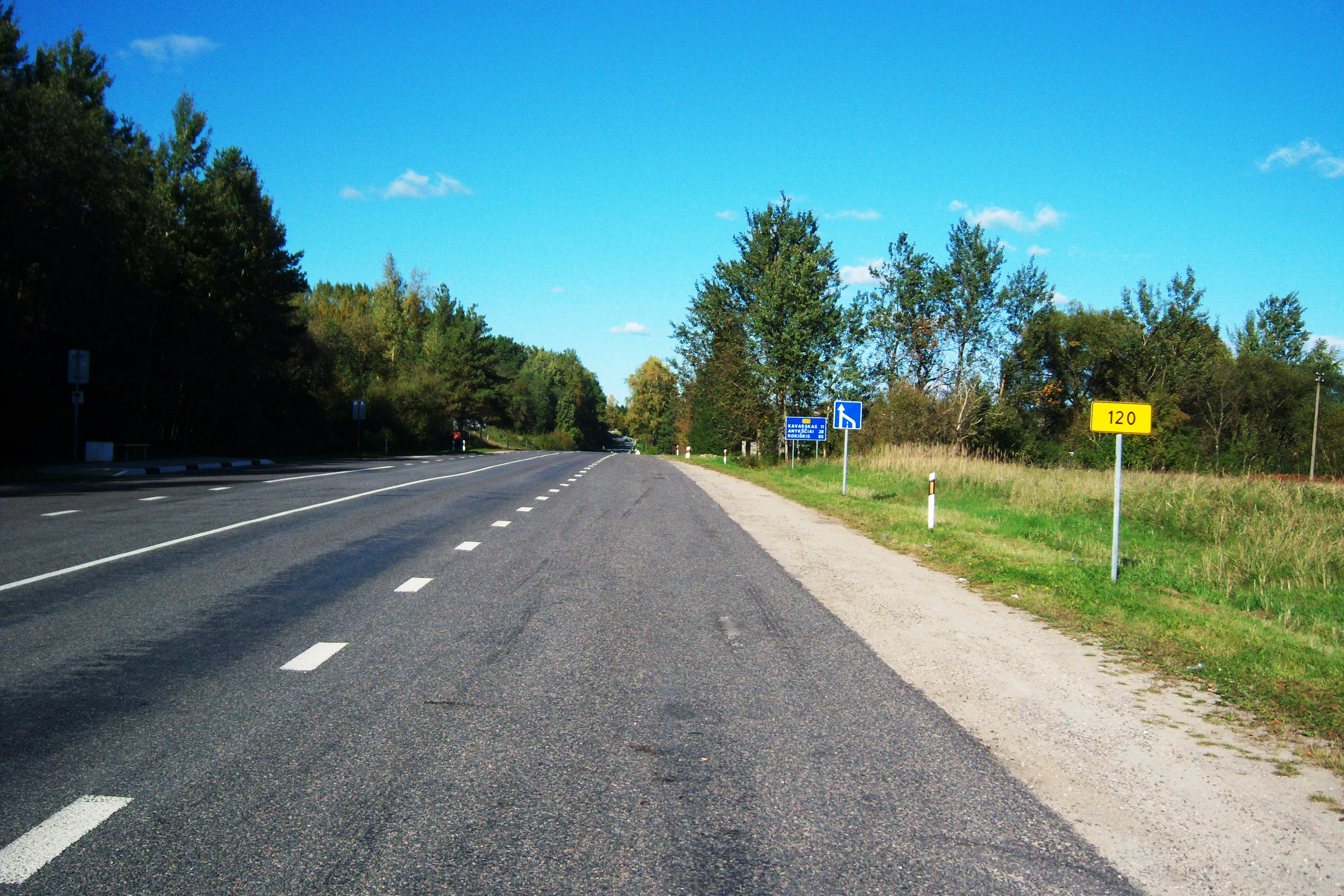 Beginning of the KK120 road by Radiškis, Ukmergė District, Lithuania